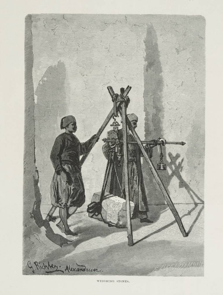 Two men using a hanging balance to weigh a stone.